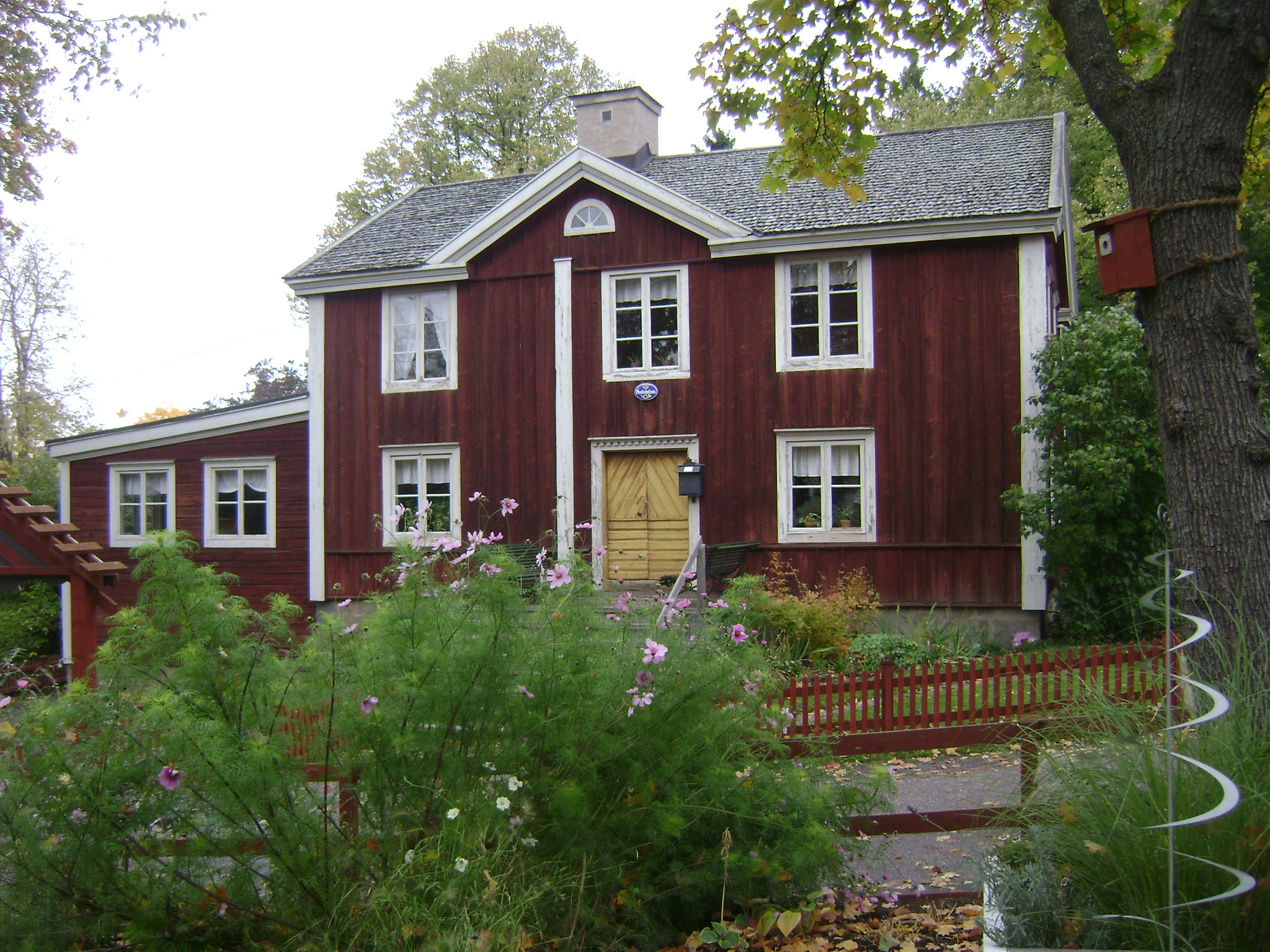 Sweden. Stockholm. Djurgården. Open air museum